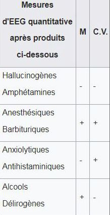 Changes of variables of quantitative EEG : mean M and Variability Coefficient (C.V.) decreasing (-) or increasing (+) following psychotropic administration in human normal volonteers, versus placebo.